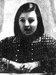 majid boulila